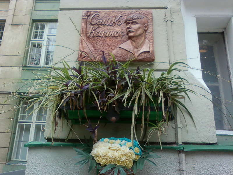 Sashko Kapinos _Nebesna sotnia